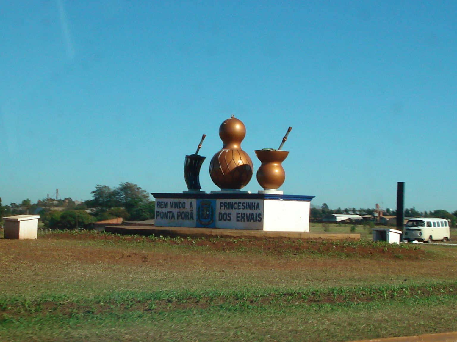 Ponta Porã Simbol